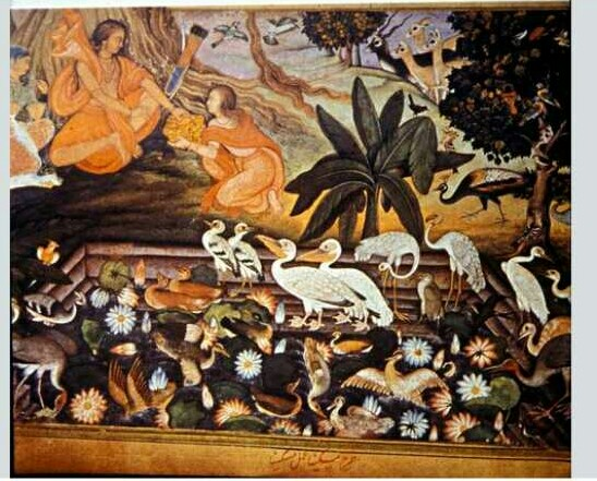 By miskin